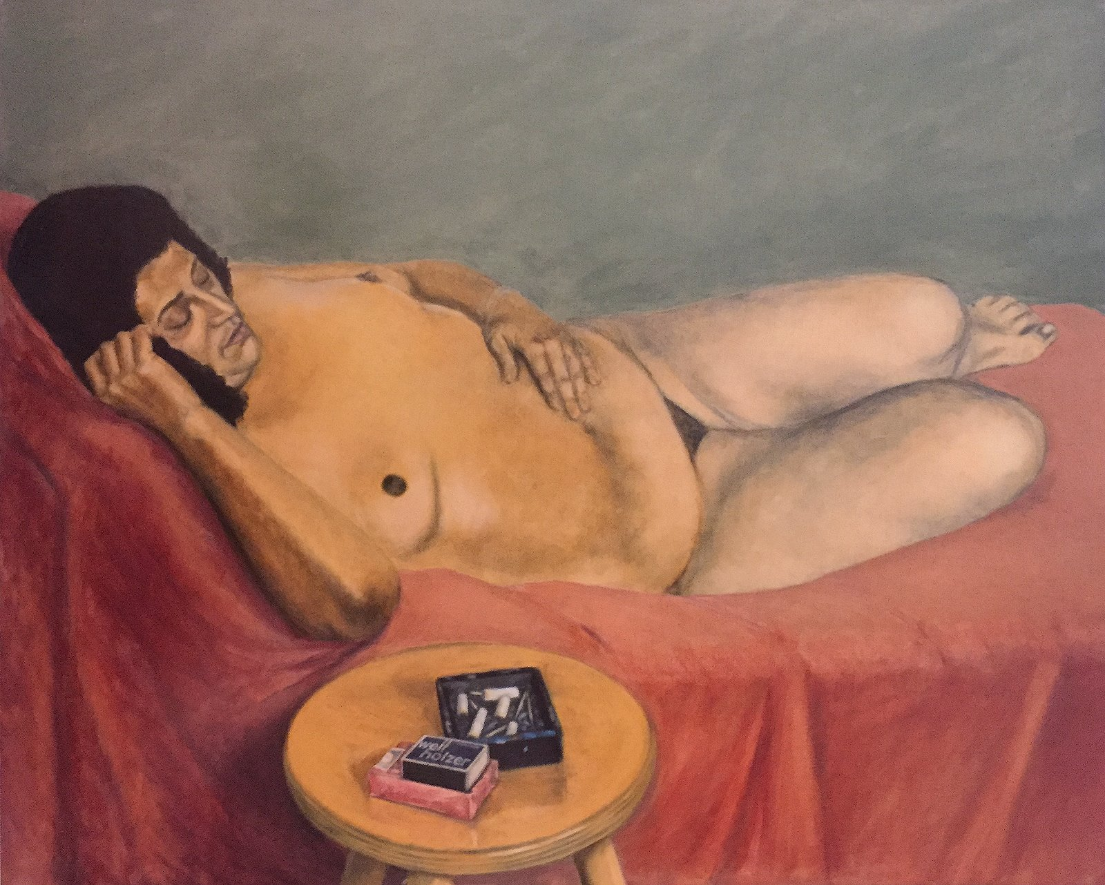 Recumbent act, 1973, Oil/canvas, 100 x 120 cm